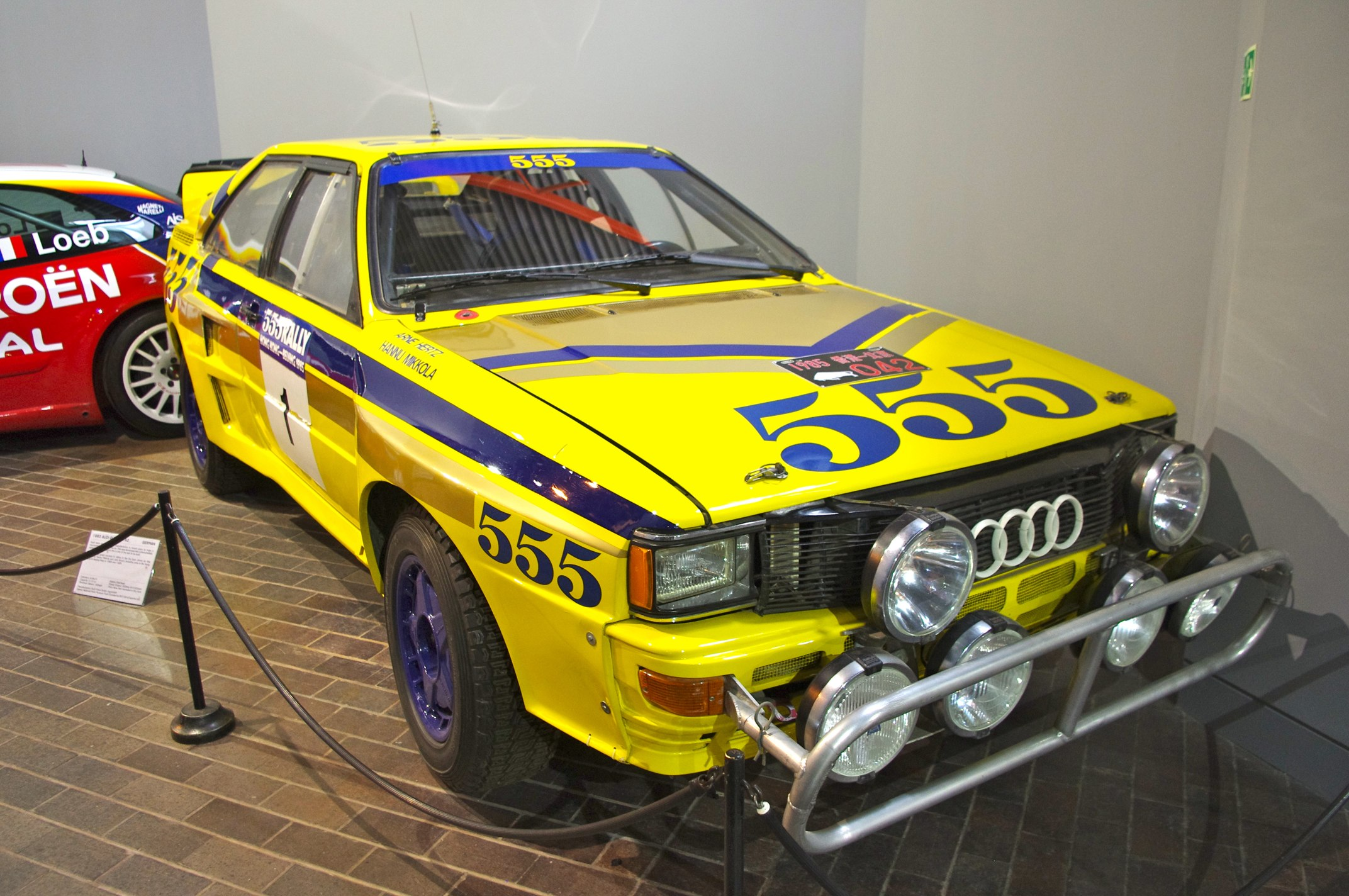 A 1983 Audi Quattro A2 in 555 livery at the National Motor Museum, Beaulieu, Hampshire, UK.